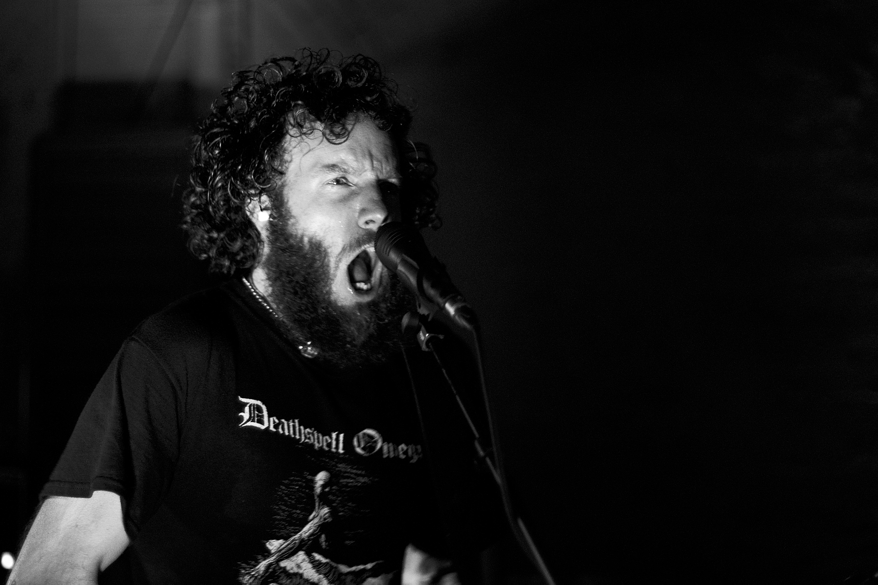 View in my concert gallery.